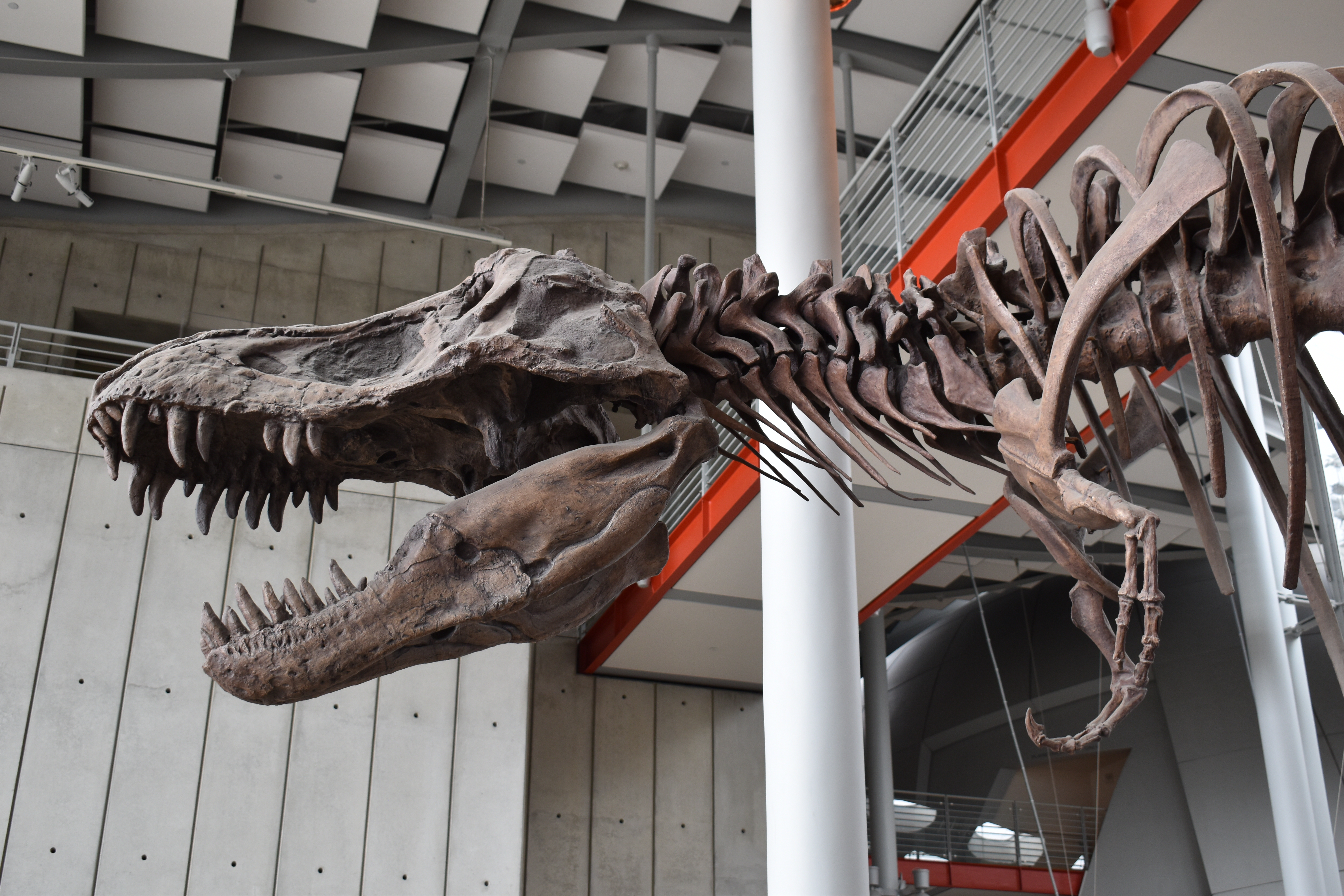 California Academy of Sciences - Interior